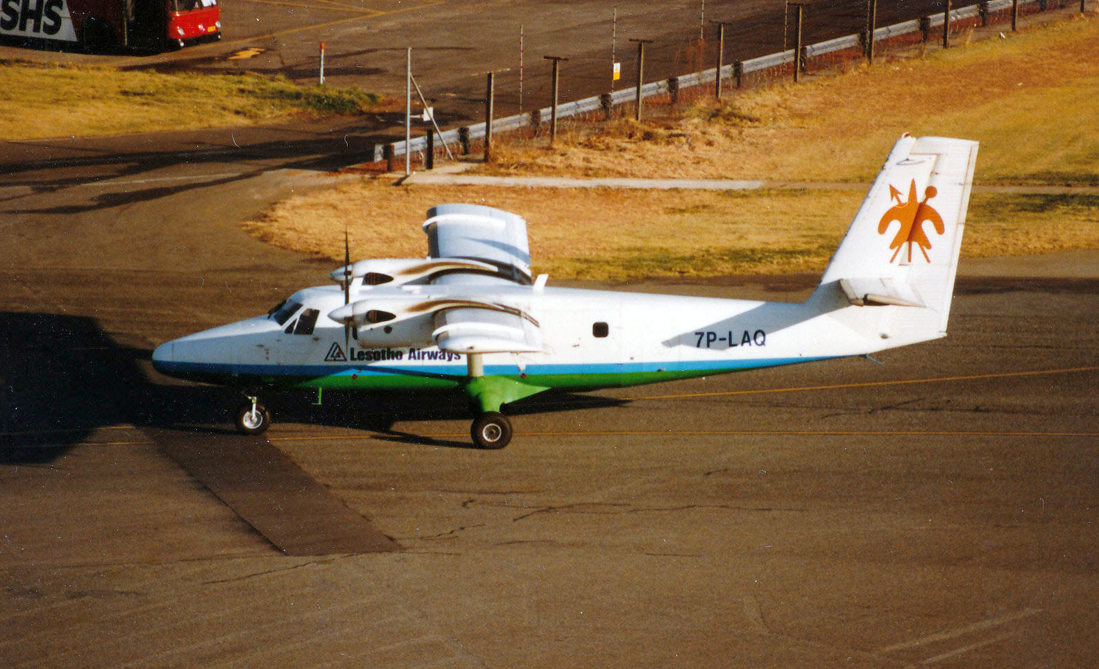 Photo: P.Dubois